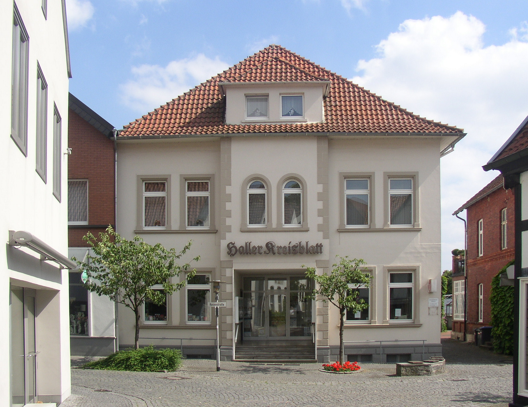 branch office of Haller Kreisblatt Newspaper in Halle (Westfalen), county of Gütersloh, Germany